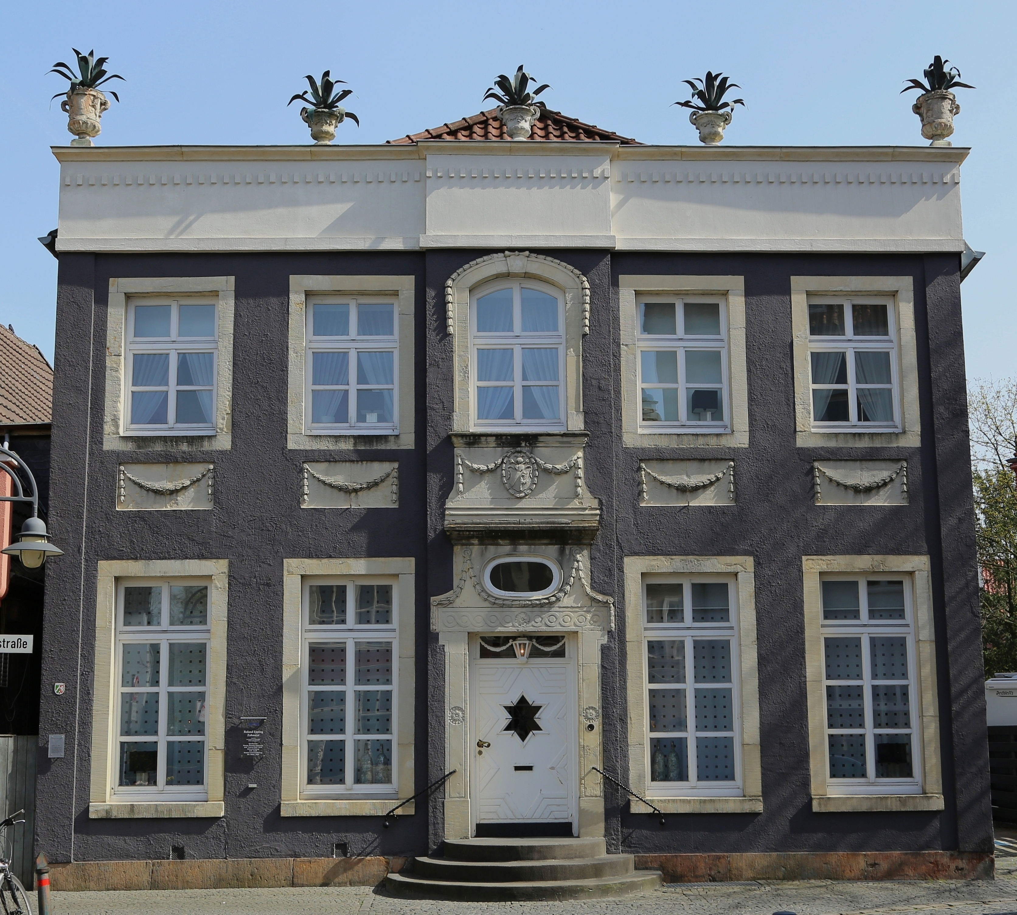 Pieter van der Swaagh House (Haus Pieter van der Swaagh), 13 Market (Markt 13), in Steinfurt-Burgsteinfurt, Kreis Steinfurt, North Rhine-Westphalia, Germany.